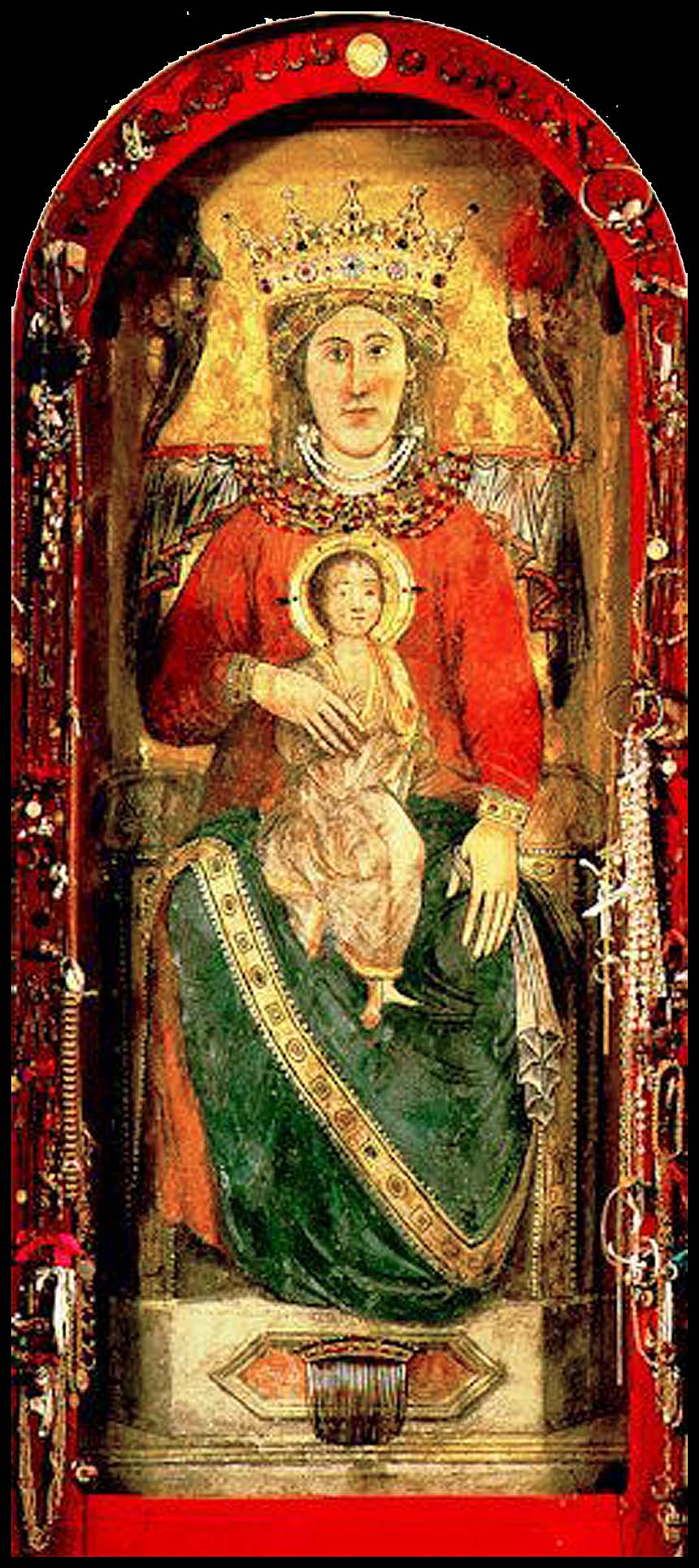 see title